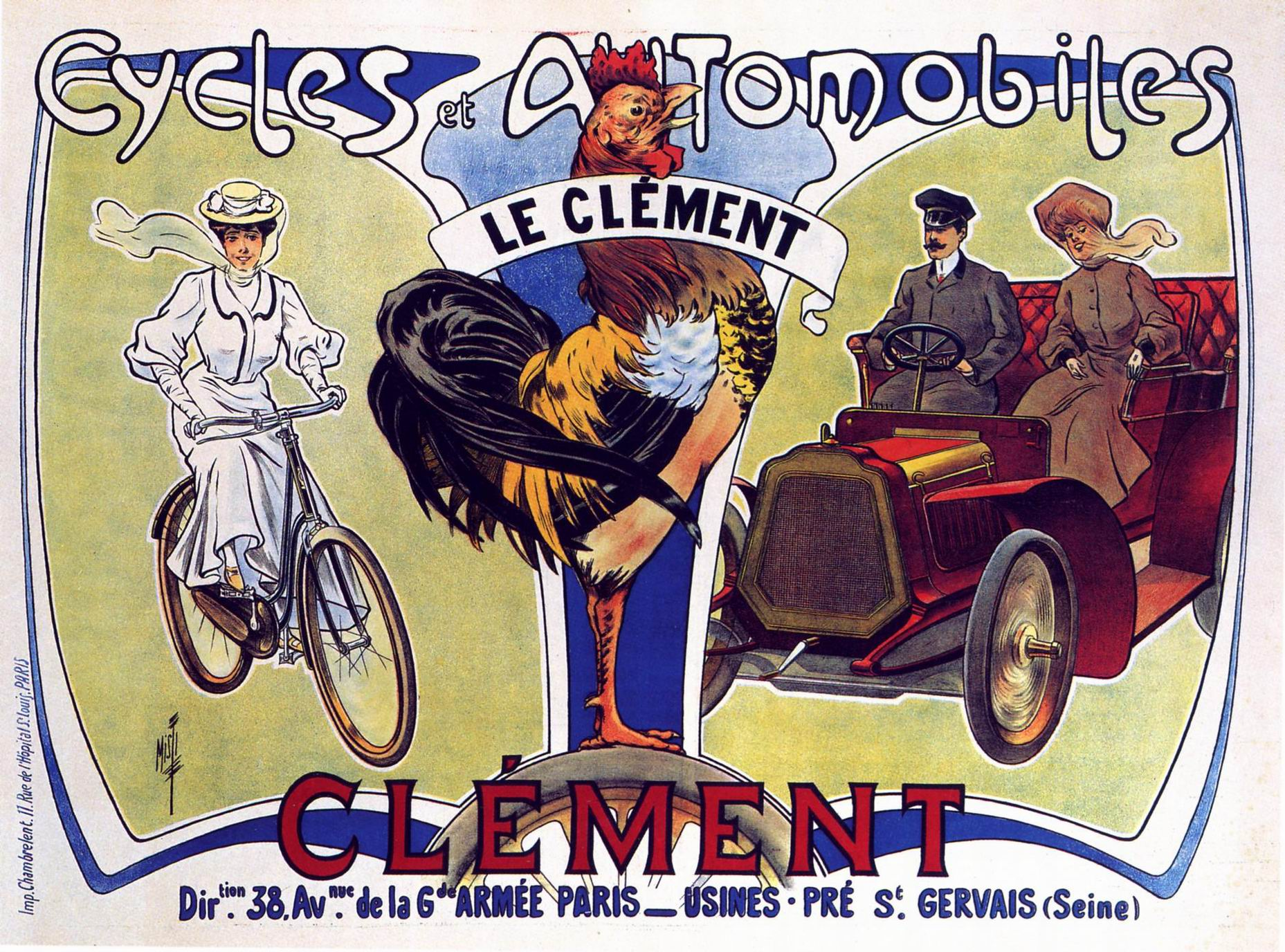 Advertising poster for Cycles & Automobiles Clément by Misti.